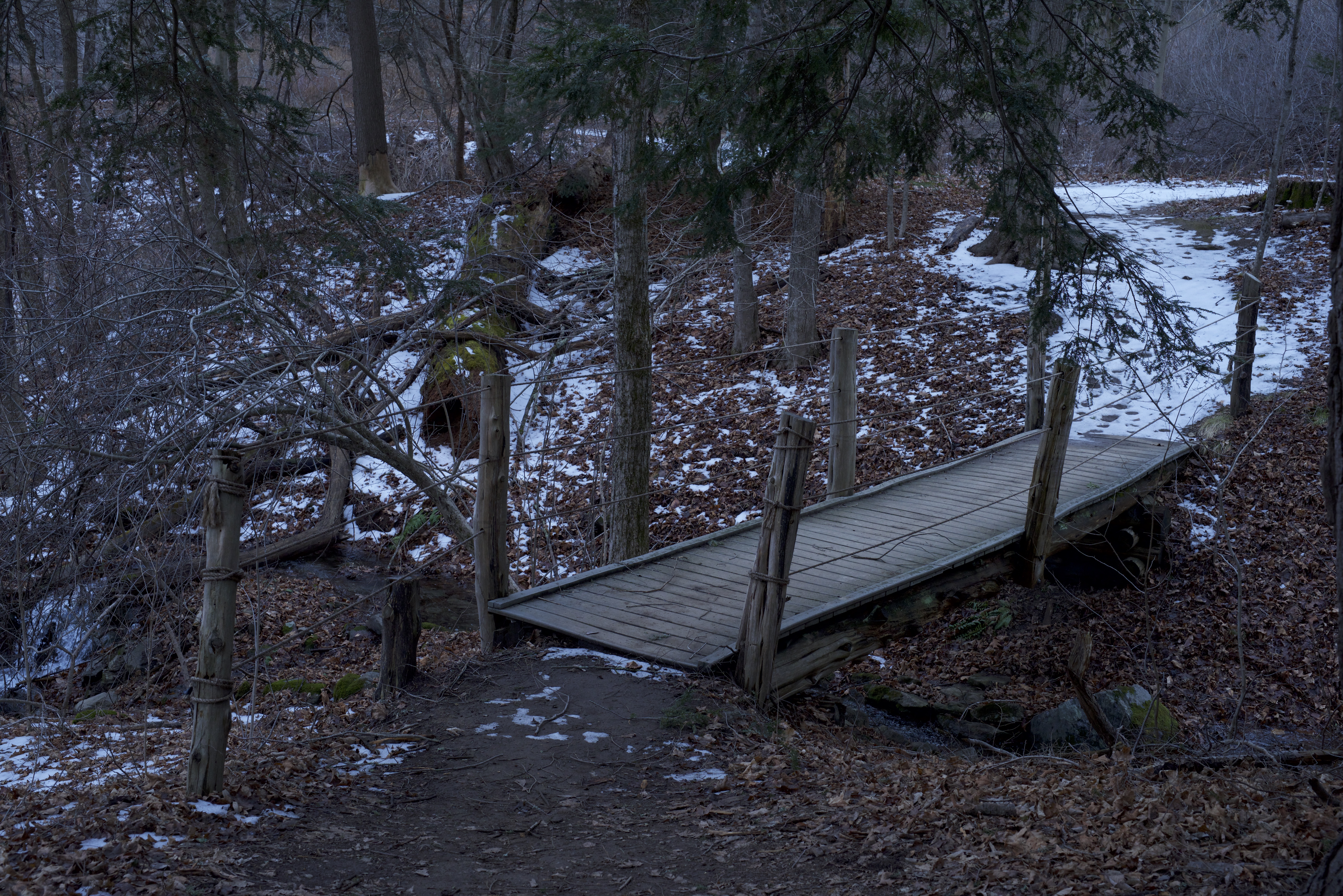 Southbury Audubon Society trail.